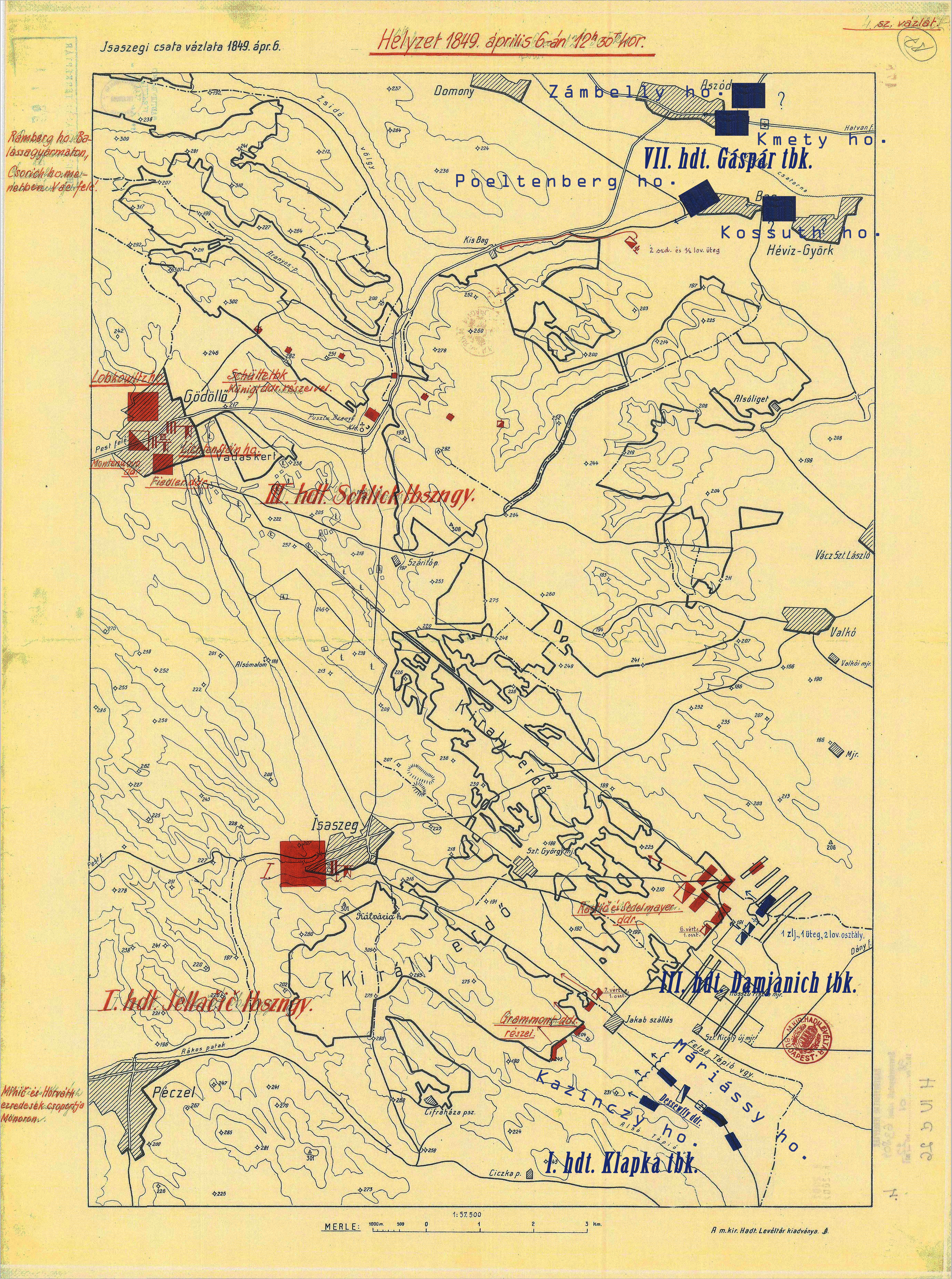 The situation at the start of the battle. Red - the Austrian troops, Blue - the Hungarian troops.